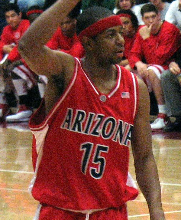 Mustafa Shakur of Arizona Wildcats men's basketball playing against Stanford in 2007